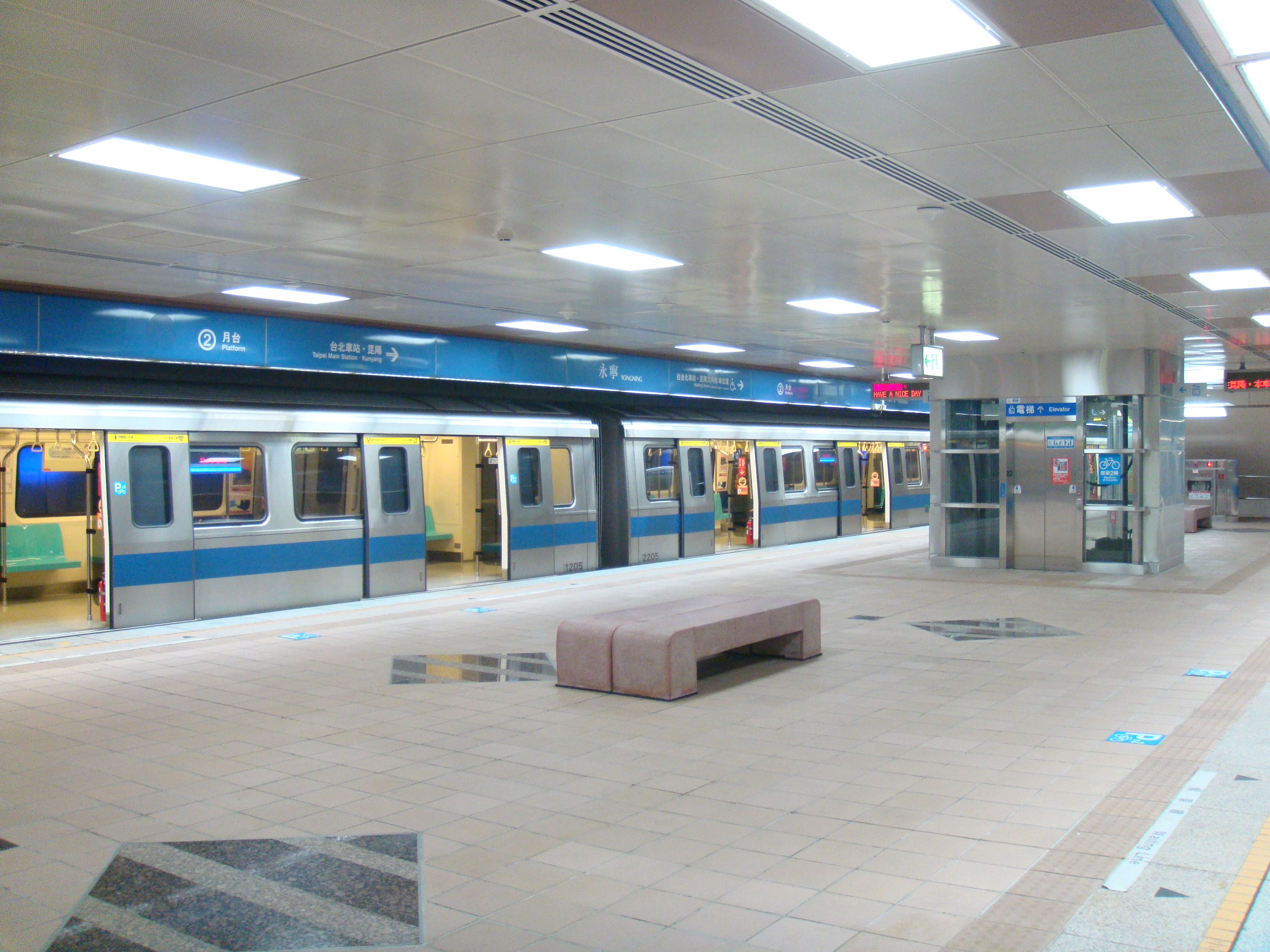 Platform 2, Yongning Station, Tucheng Line, Taipei Metro.